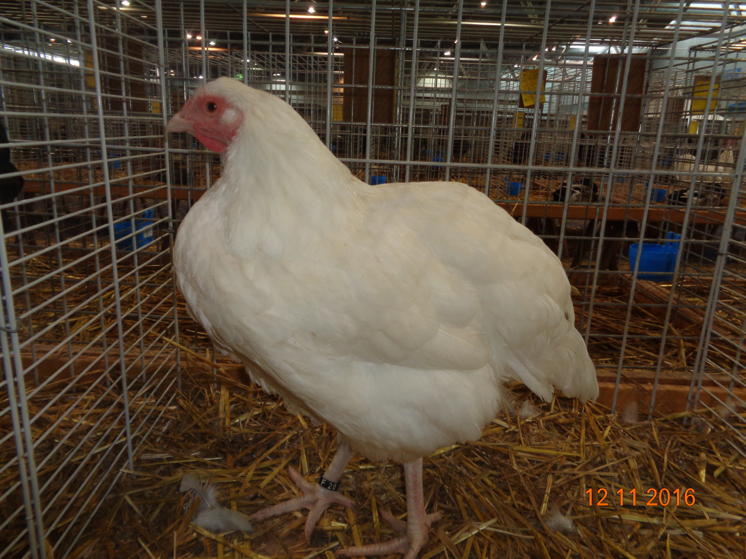 Poule Charollaise